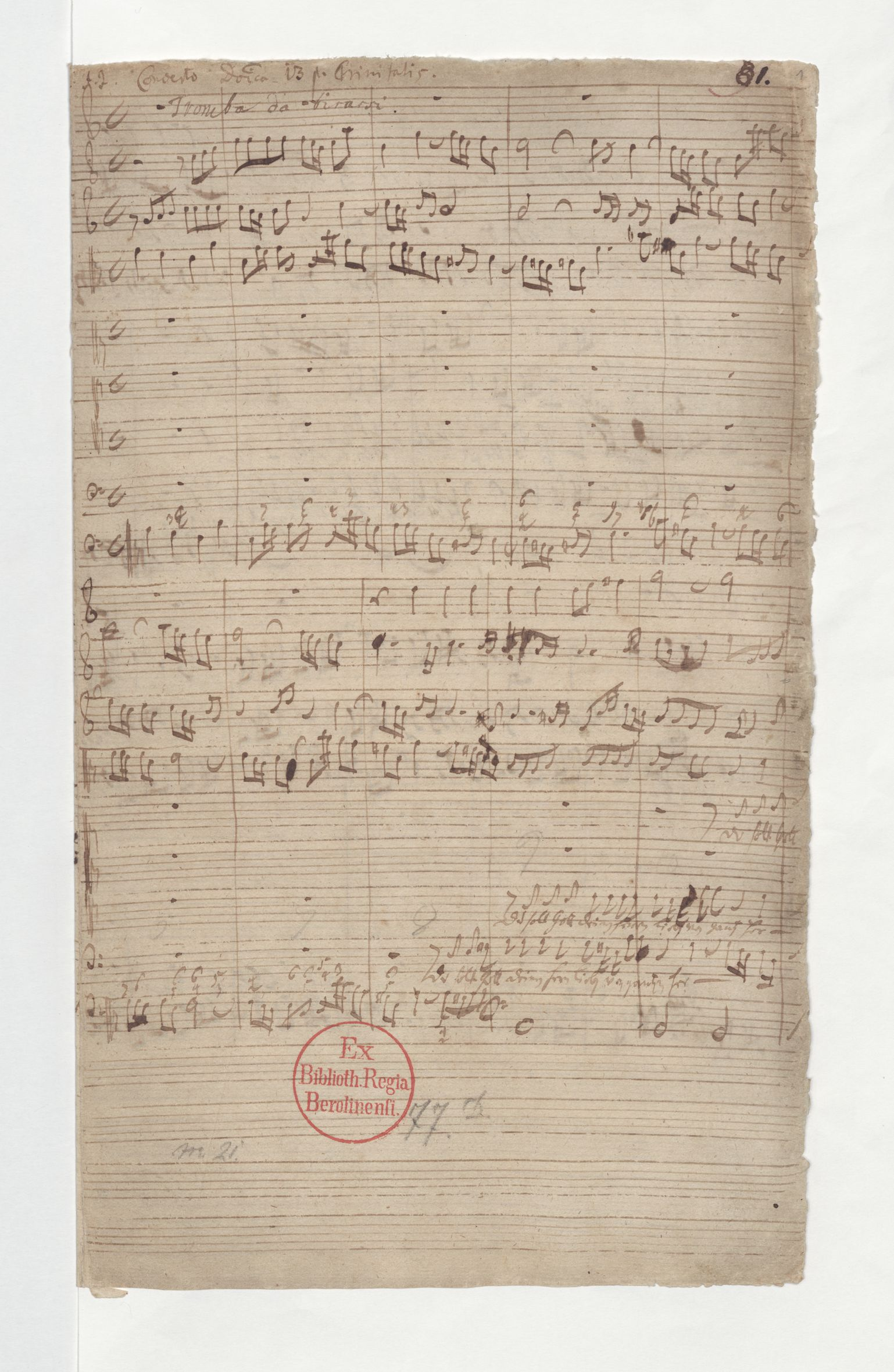 Autograph Manuscript of the opening chorus from the cantata Du sollt Gott, deinen Herren, lieben BWV 77 with instrumental cantus firmus Dies sind die heilgen zehn Gebot